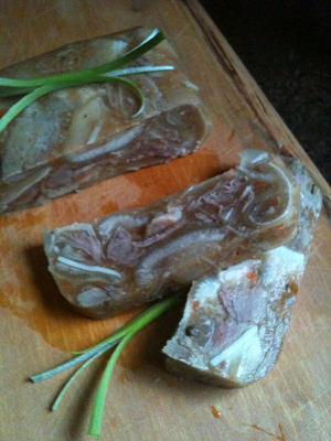 Latvian "Galerts" (Headcheese)